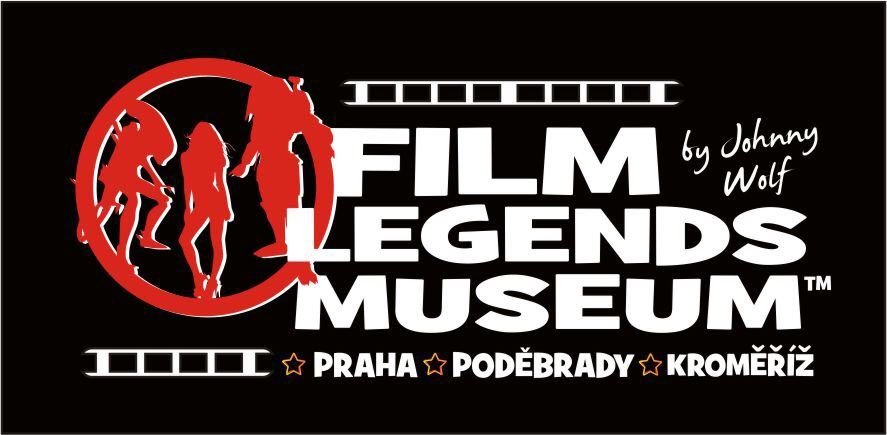 Film Legends Museum has a registered trademark since November 4, 2016.